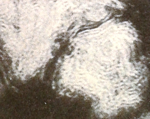 Negatively stained transmission electron micrograph of multi-lamellar liposomes, prepared by vortex shaking of aqeous total lipid extract spinach chloroplast thylakoid membranes.